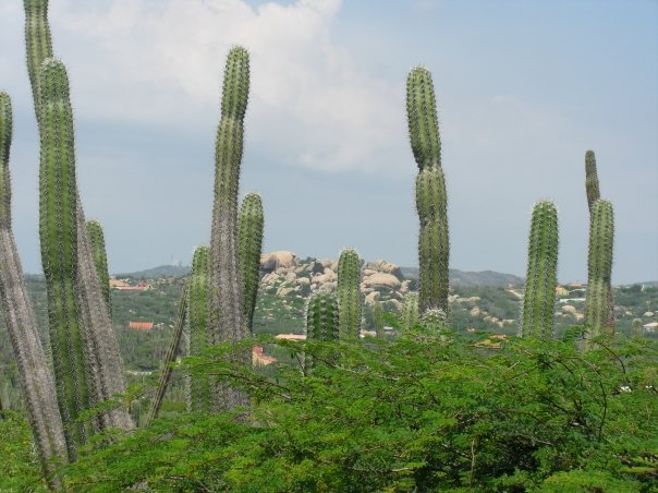 Jamanota, Arikok National Park